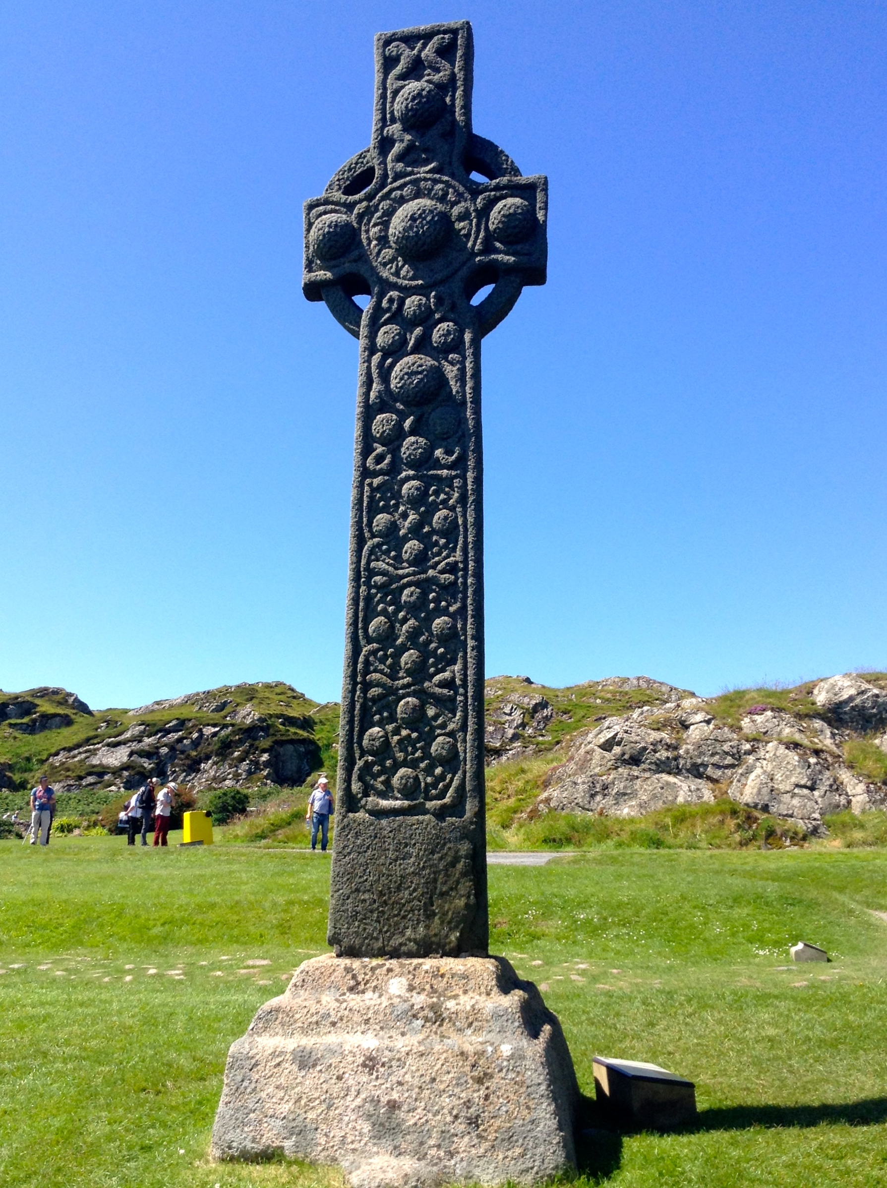 St Martins cross on Iona, Scotland. Outside the abbey.